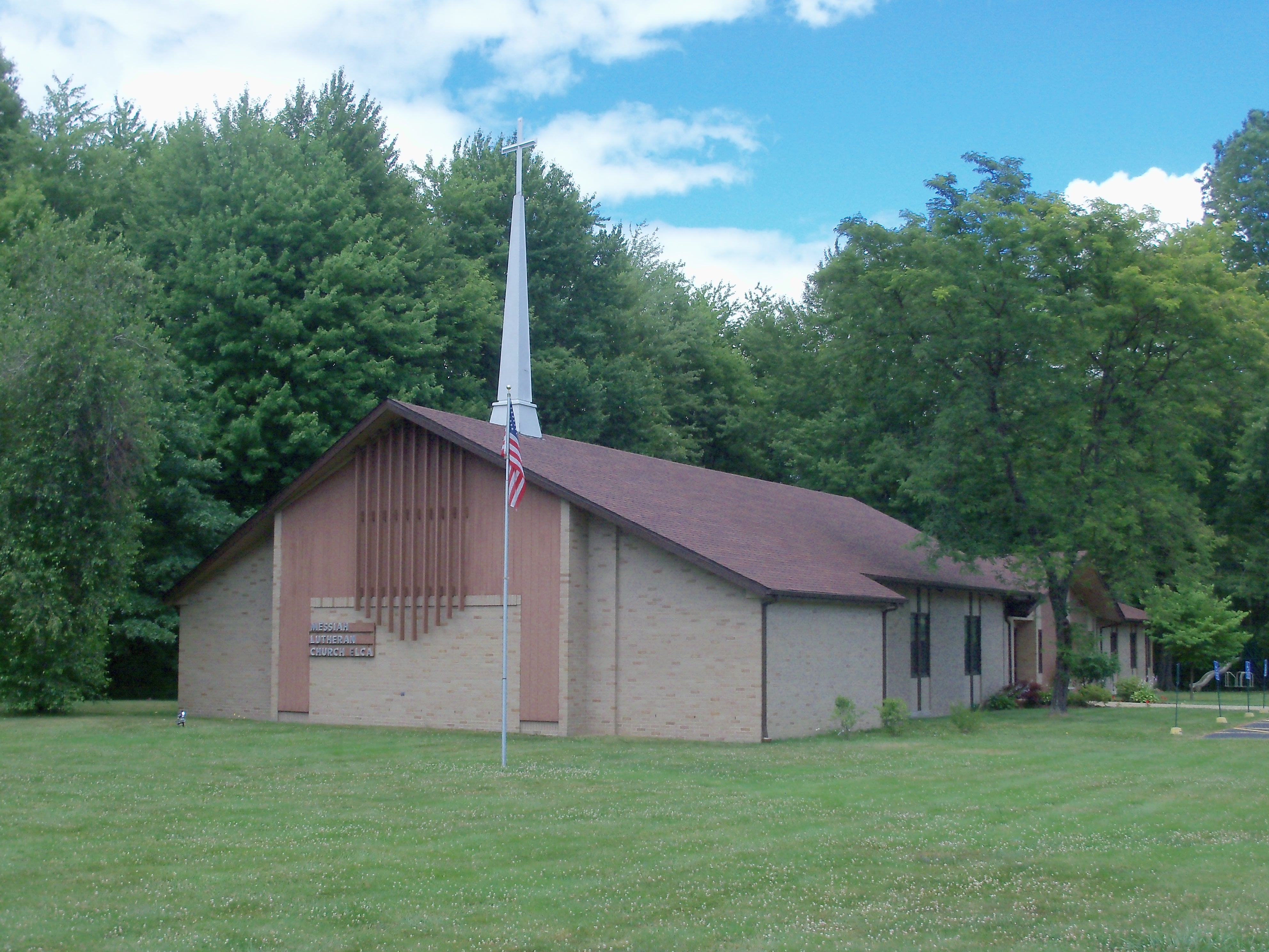 Messiah Lutheran Church is a member of Hope Parish of the Evangelical Lutheran Church of America